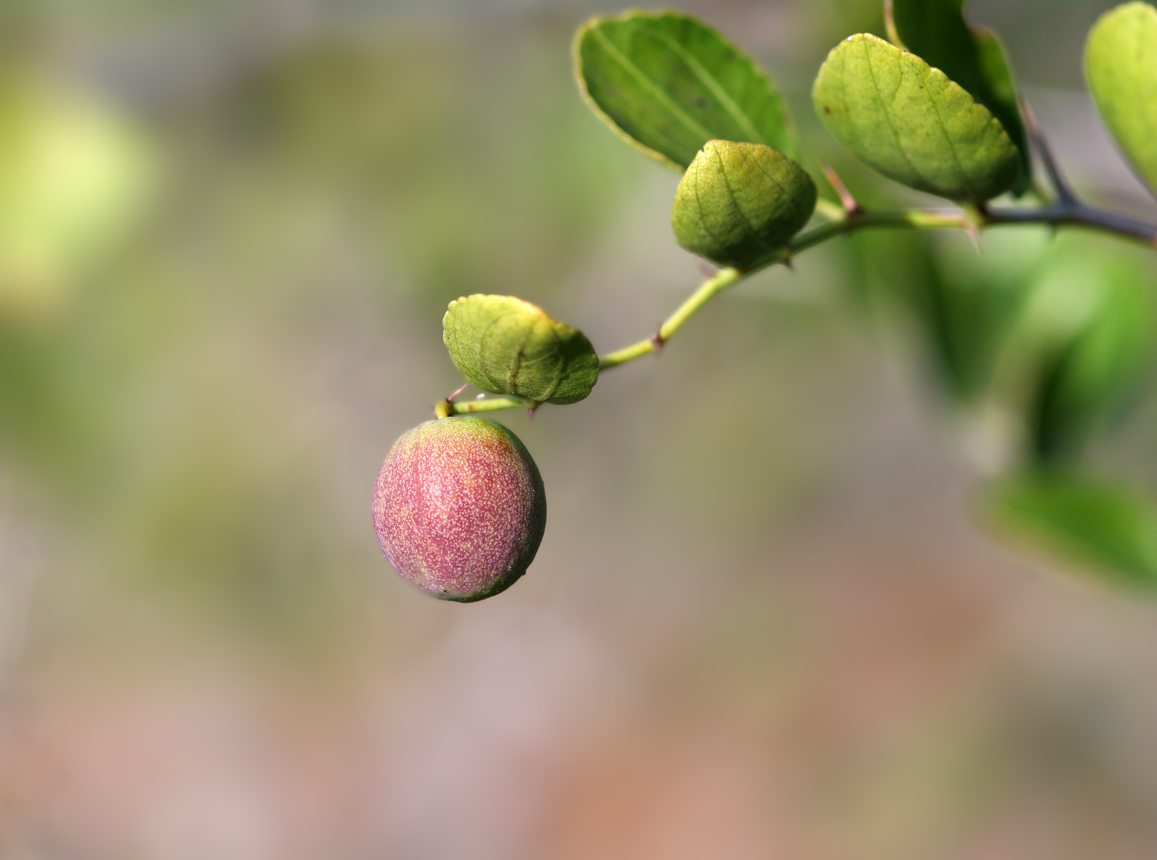 A ripining fruit of Zizyphus lotus. Photo taken in the elevation of 85 m in Cukurova University Campus in Adana, Turkey. The edible fruit is a globose dark yellow drupe 1–1.5 cm diameter.